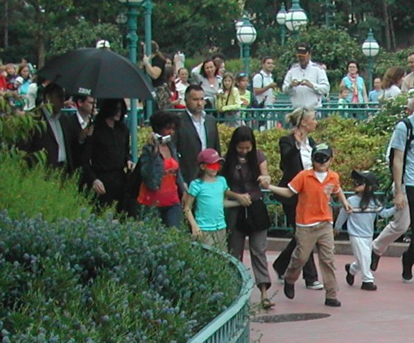 Michael Jackson with his children in Disneyland Paris (cropped version of File:Michael Jackson3 2006.jpg)Michael Jackson en Disneyland Paris 2